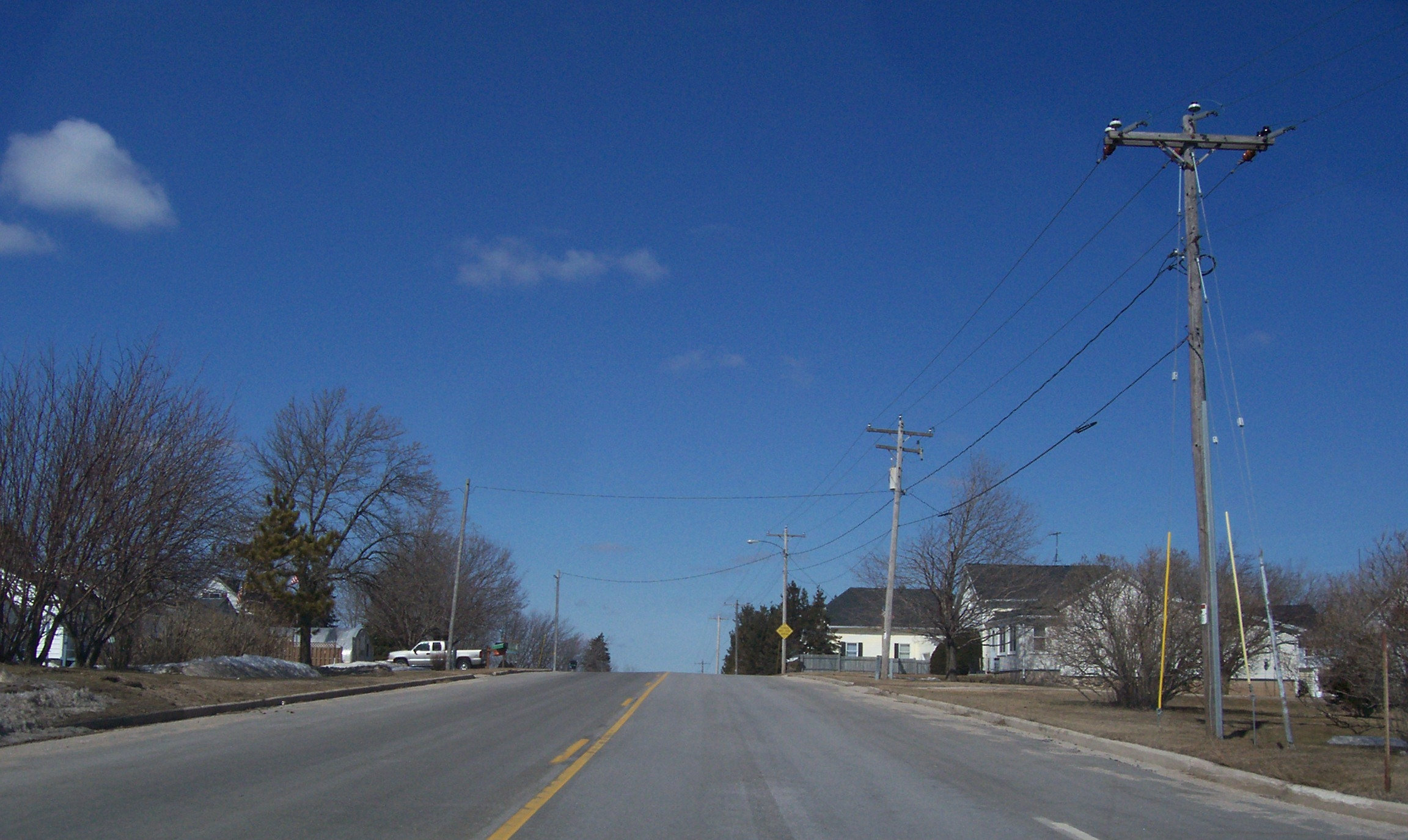 Looking north at the unincorporated village of Cato in the town of Cato, Wisconsin, United States.